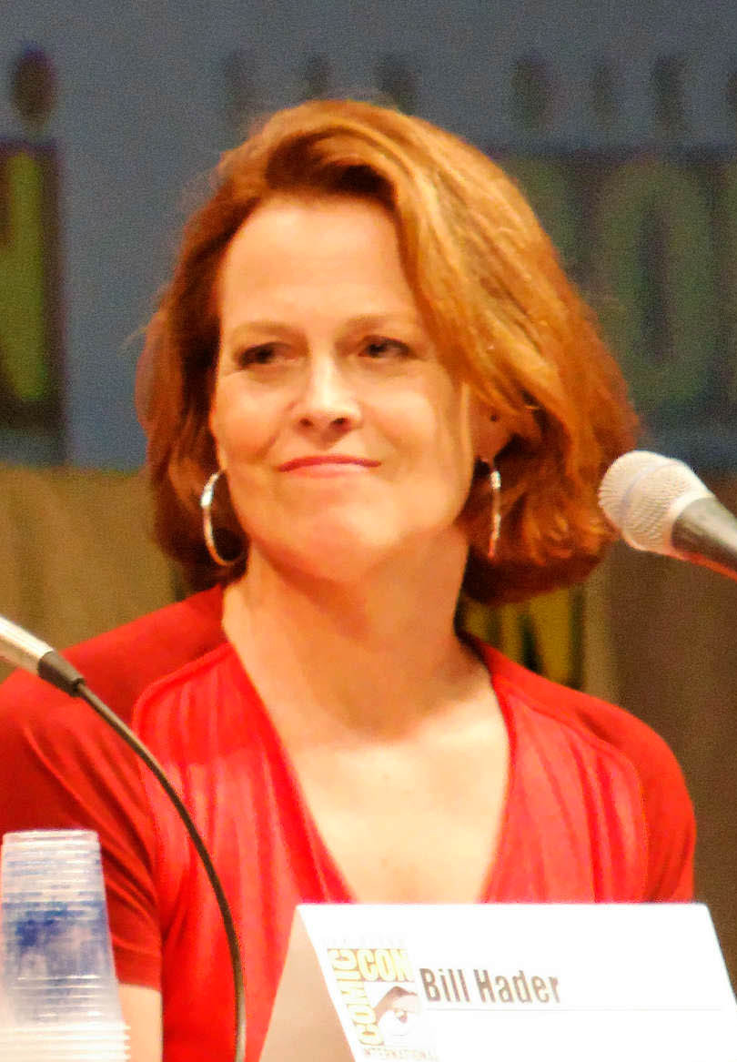 Jason Bateman, Sigourney Weaver, Bill Hader, and Jeffrey Tambor at Comic-Con in 2010.